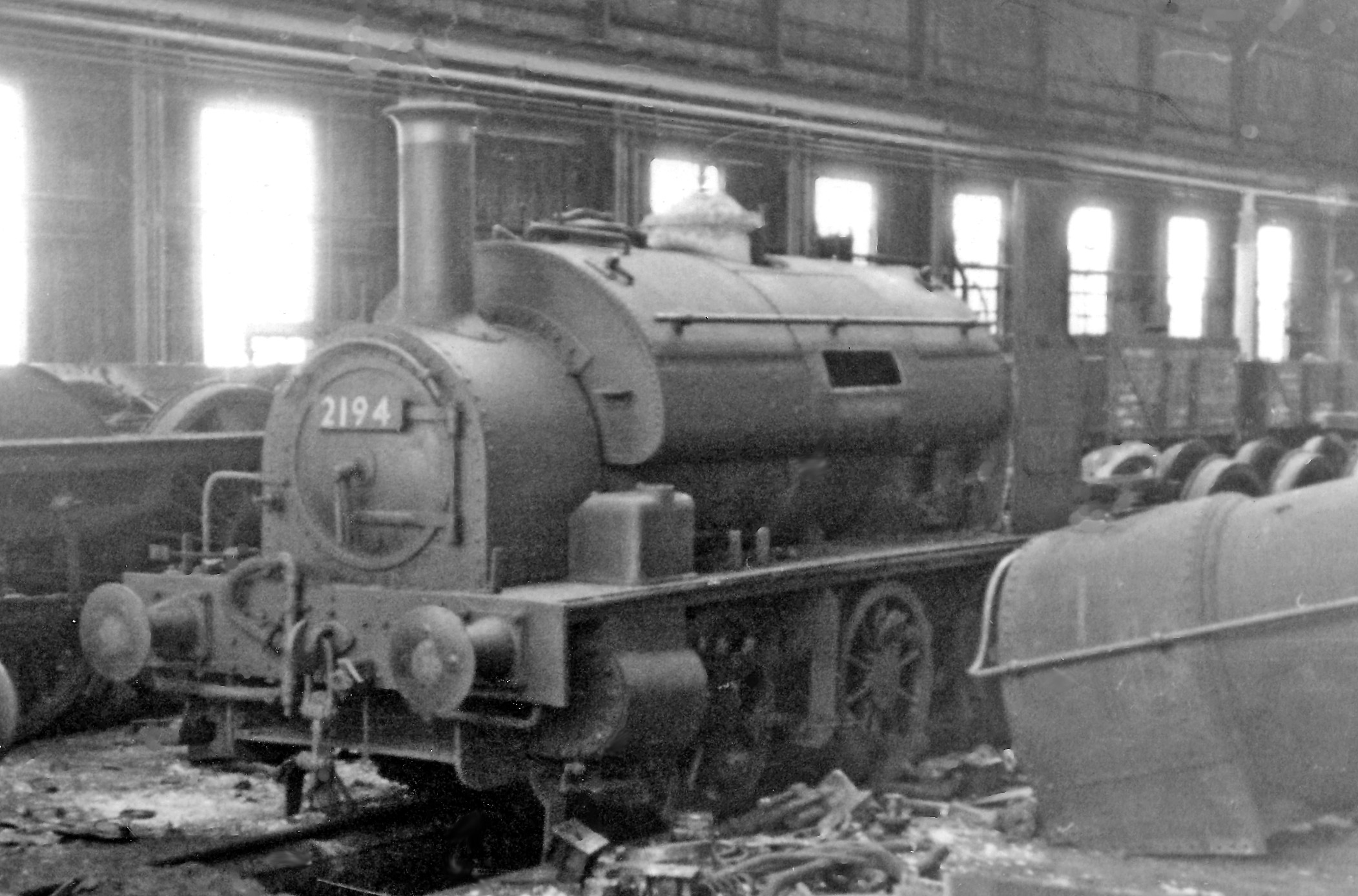 Swindon Works: diminutive 0-6-0 saddle-tank in scrapping-shed. With the much larger remains of a 'Star' 4-6-0 behind, ex-Burry Port & Gwendraeth Valley Railway No. 2194 'Kidwelly' is also being scrapped. It was built by the Avonside Engine Co. in 5/1903 and after the usual reboilering etc. by the GWR had survived until 2/53.